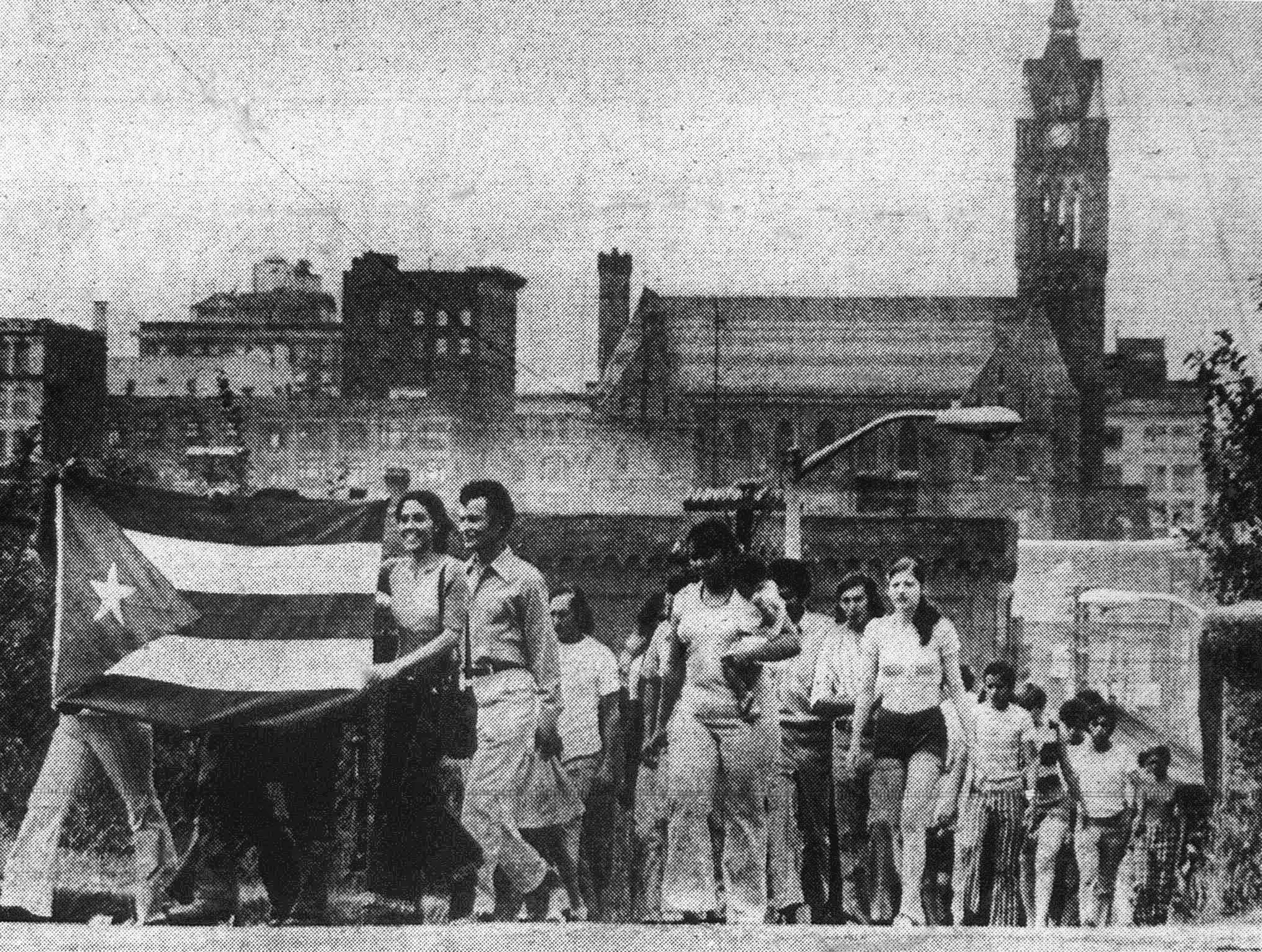 Residents of Ward 1 of Holyoke, Massachusetts march on Holyoke City Hall in peaceful protests against alleged police brutality and a curfew imposed by the Taupier administration at that time.